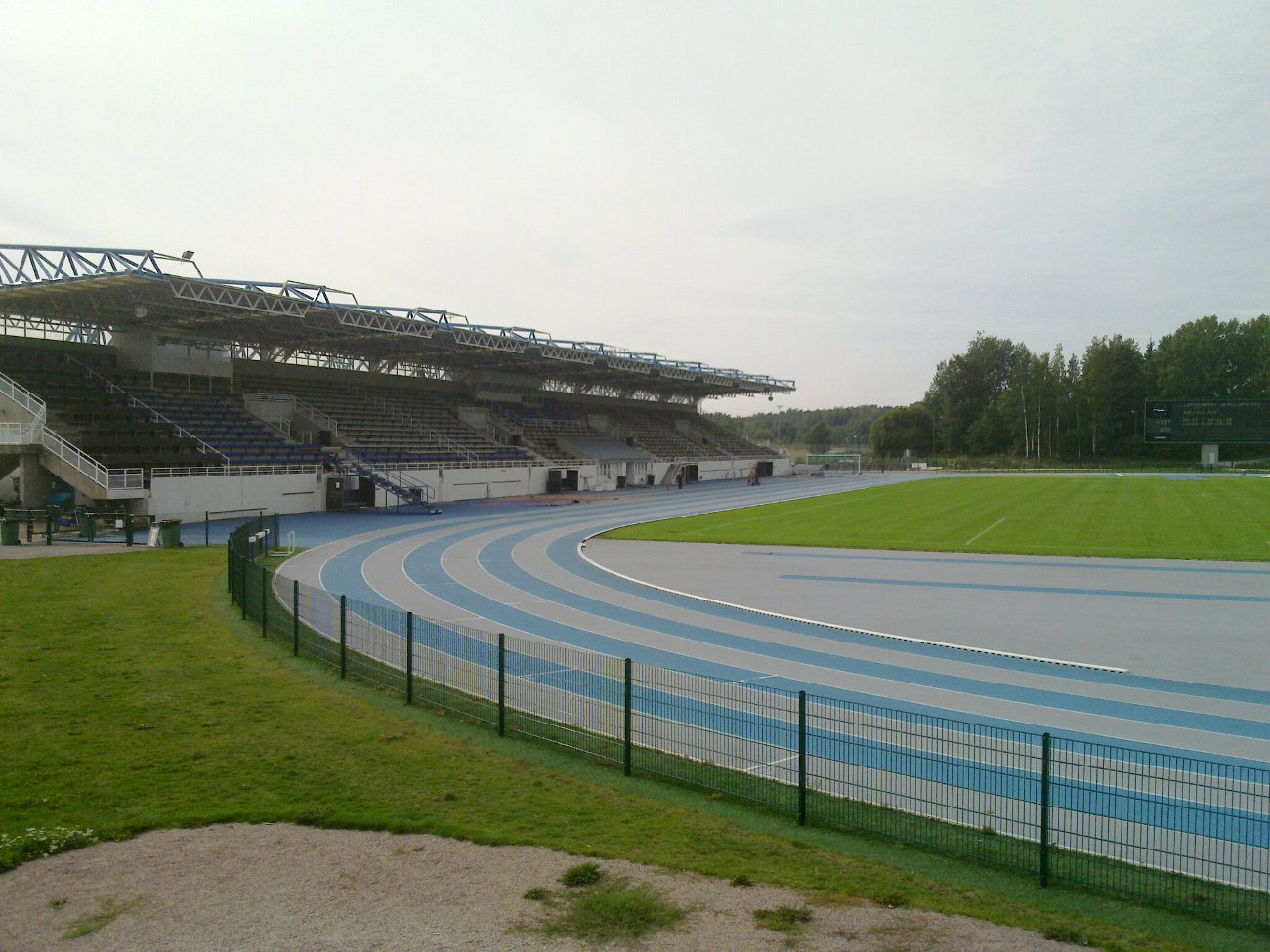 Athletics stadium at Leppävaaran Urheilupuisto in Espoo, Finland